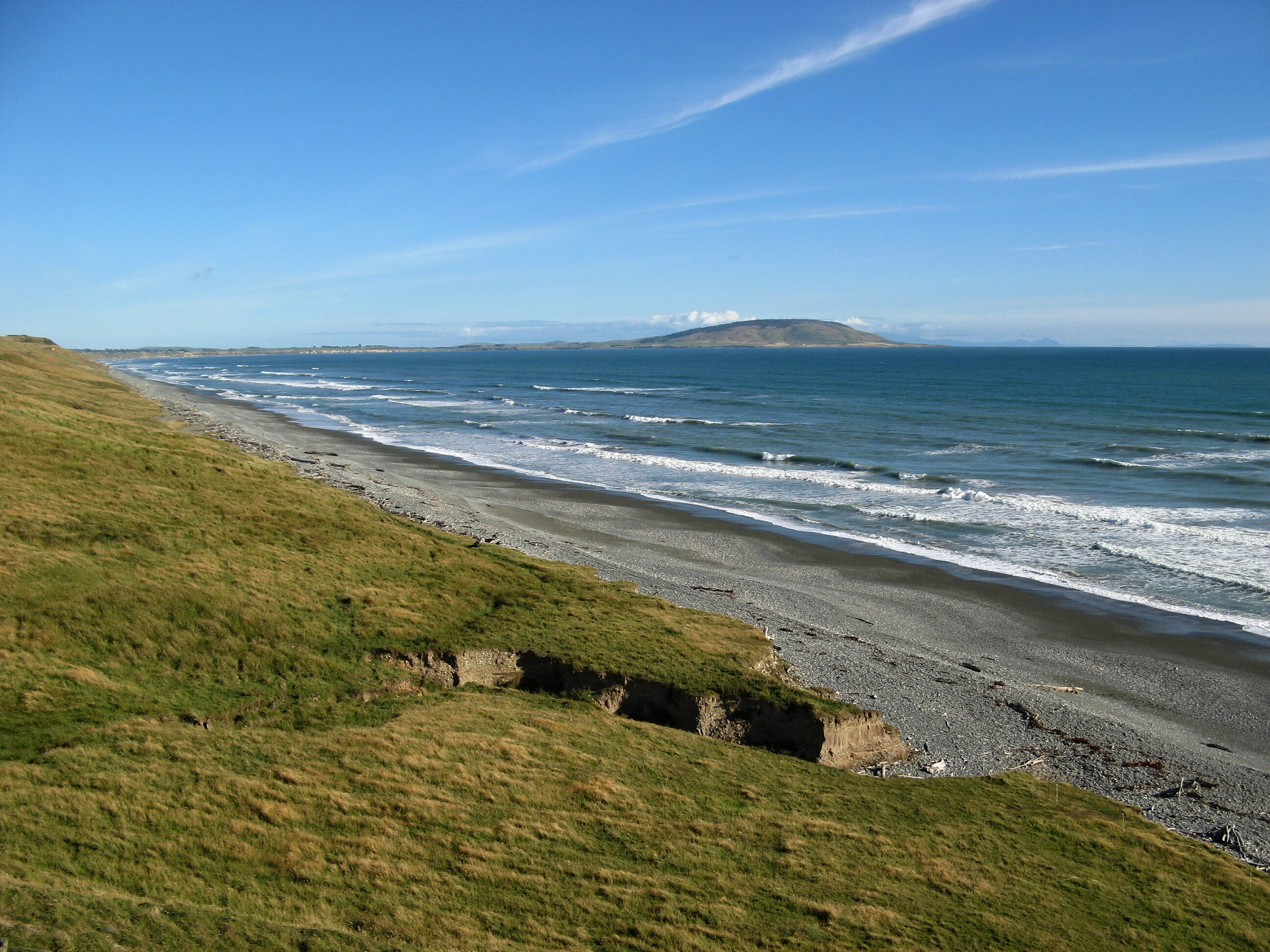 Pláž Te Waewae Bay, Pahia Hill